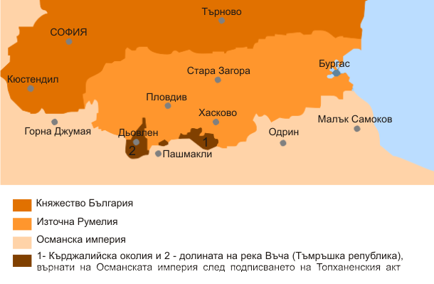 Map of the Balkans as of 1878